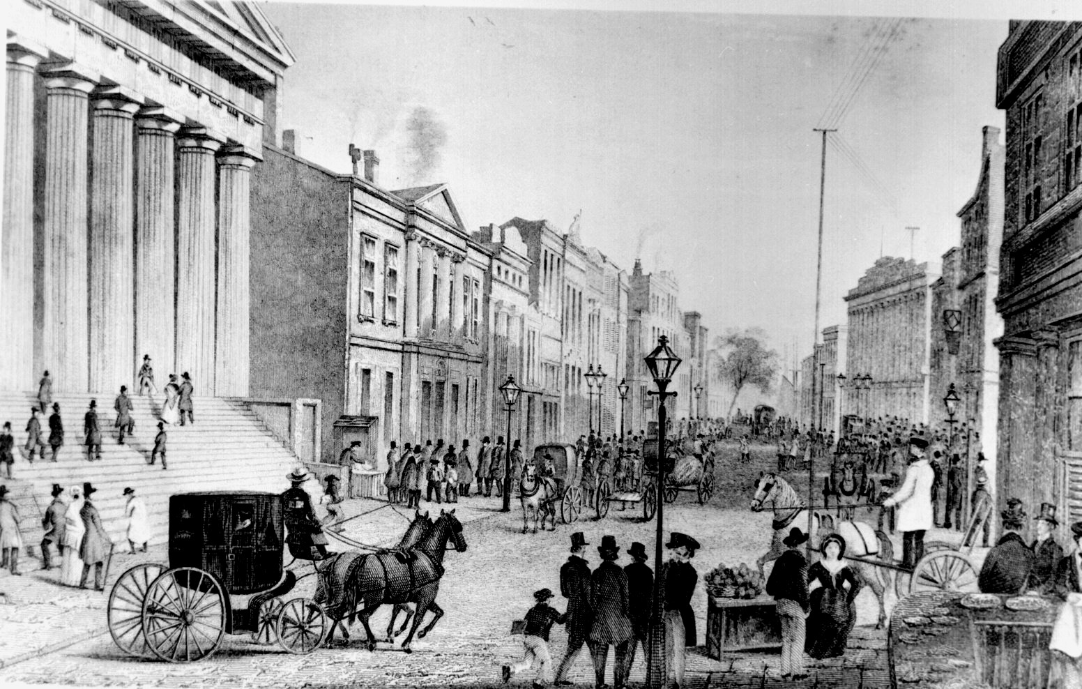 "View in Wall Street from Corner of Broadway", New York. Engraving from Eighty Years' Progress of the United States (Hartford, Connecticut, 1867). Although the original title says corner of Broadway it is the corner of Broad Street. At that time the Broad Street was called Broad Way Street. [1]